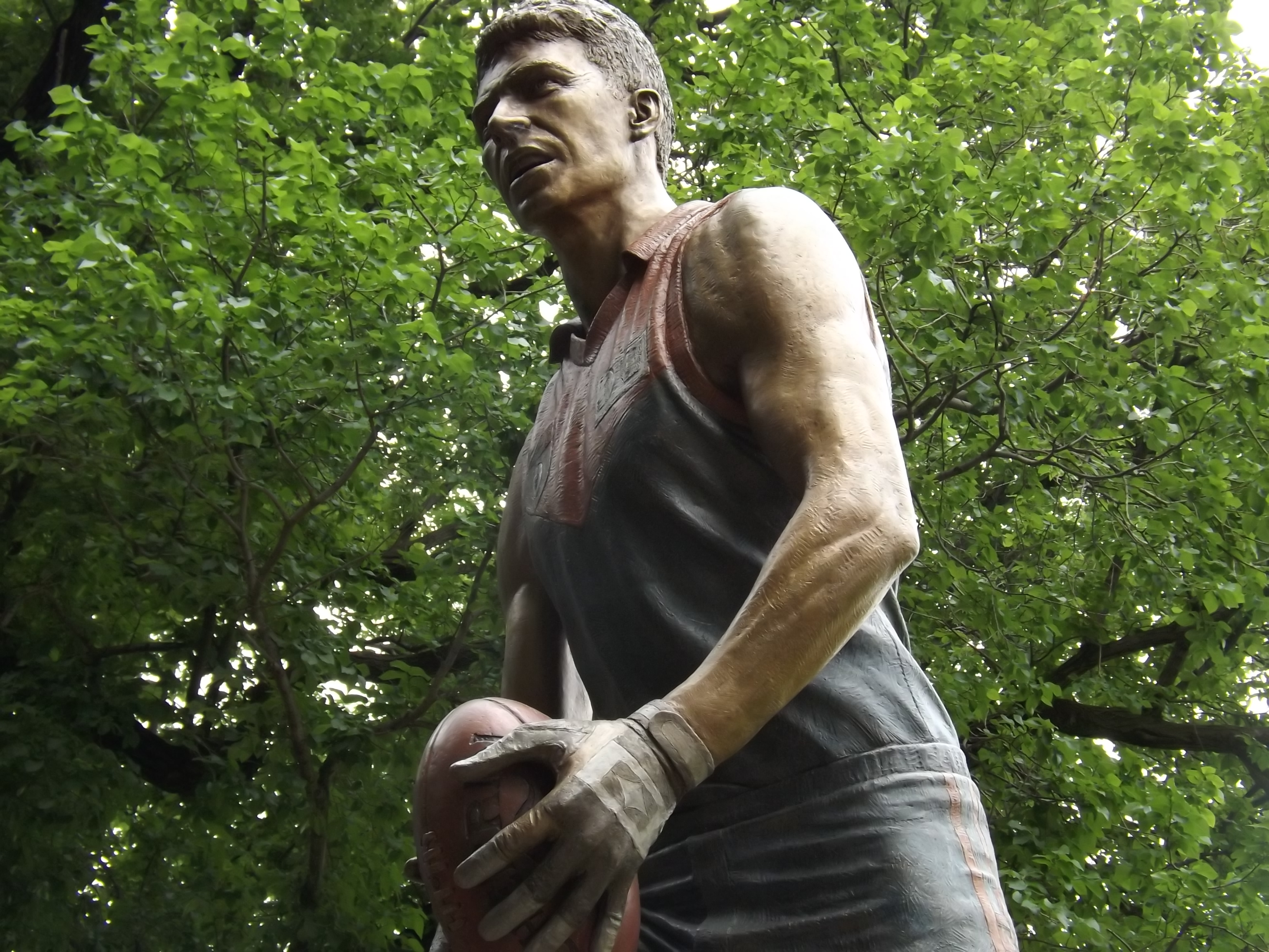 A statue of Jim Stynes outside the MCG. The sign next to the statue says: Jim Stynes is one of the most inspiring figures in the history of Australian sport. Arriving from Ireland in 1984, aged 18, he joined Melbourne Football Club's ambitious international recruitment program, having never played Australian football. During a 264-game VFL/AFL career with Melbourne, he played a record 244 consecutive games from 1987–98. His supreme athleticism redefined the role of the modern day ruckman. He became the first non-Australian born player to claim the Brownlow Medal (1991) and won four club best and fairests. In 2000, he was named in Melbourne's Team of the Century and was inducted into Australian Football Hall of Fame in 2003.